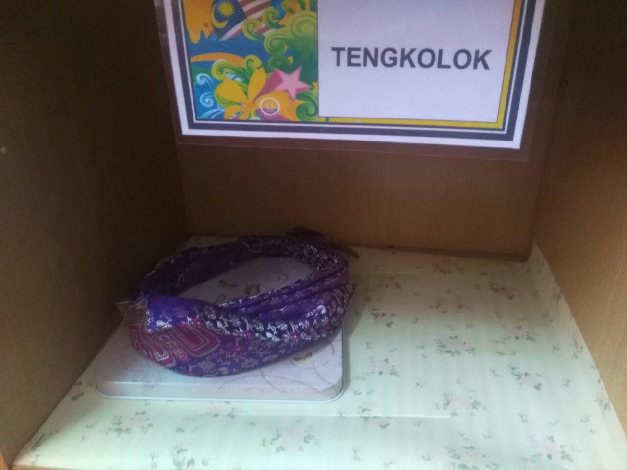 Tengkolok